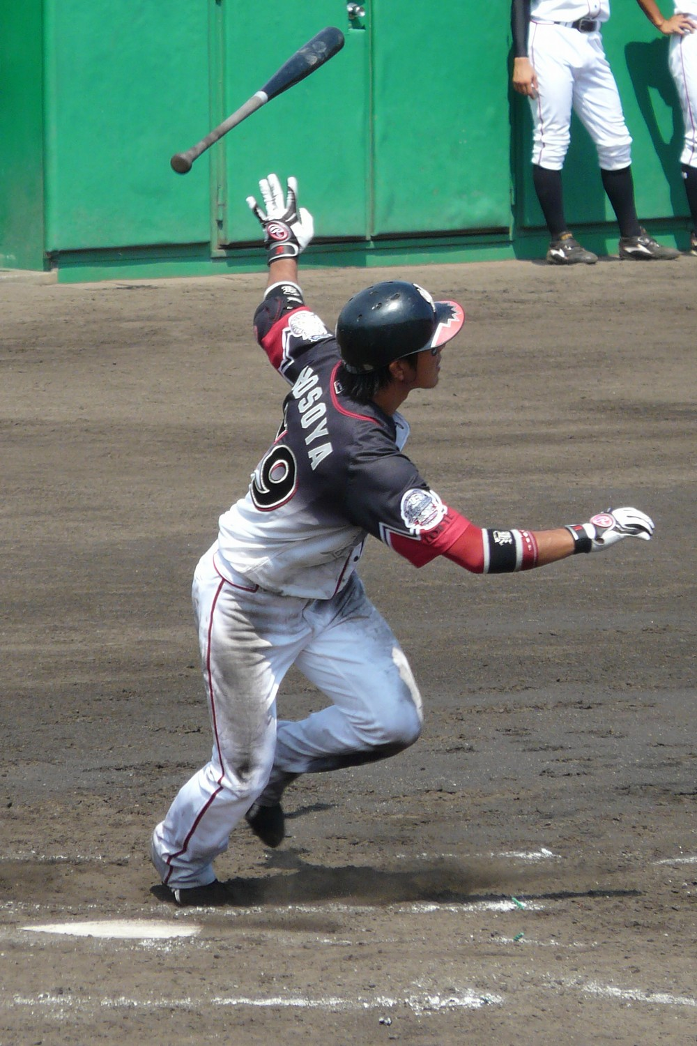 Kei-Hosoya